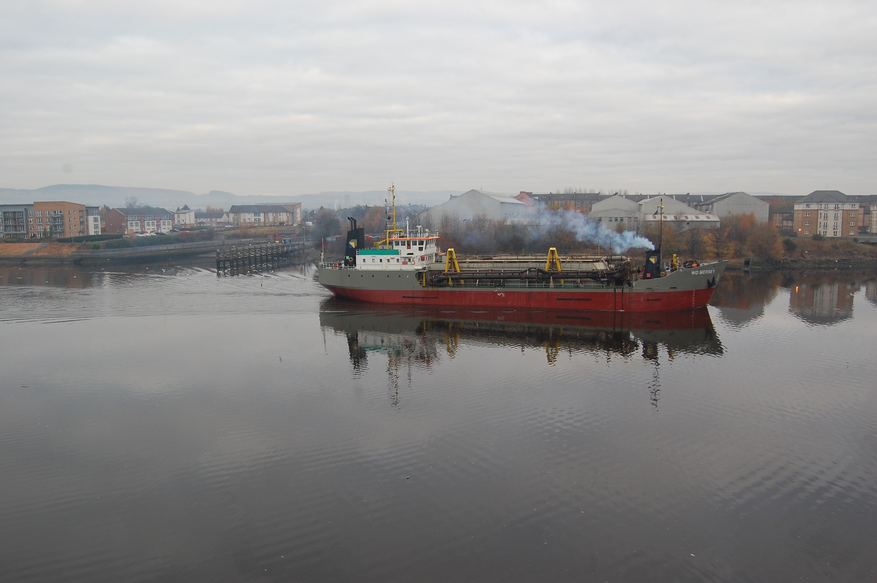 Clyde river view project